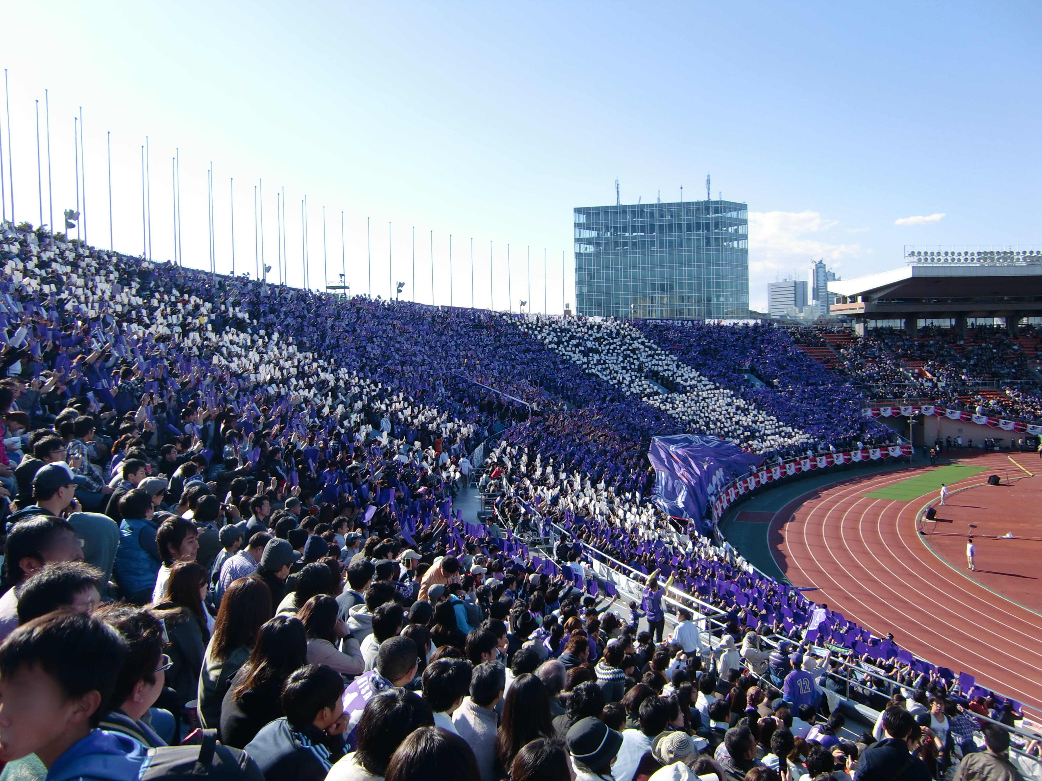 Nabisco Final 2010-Hiroshima